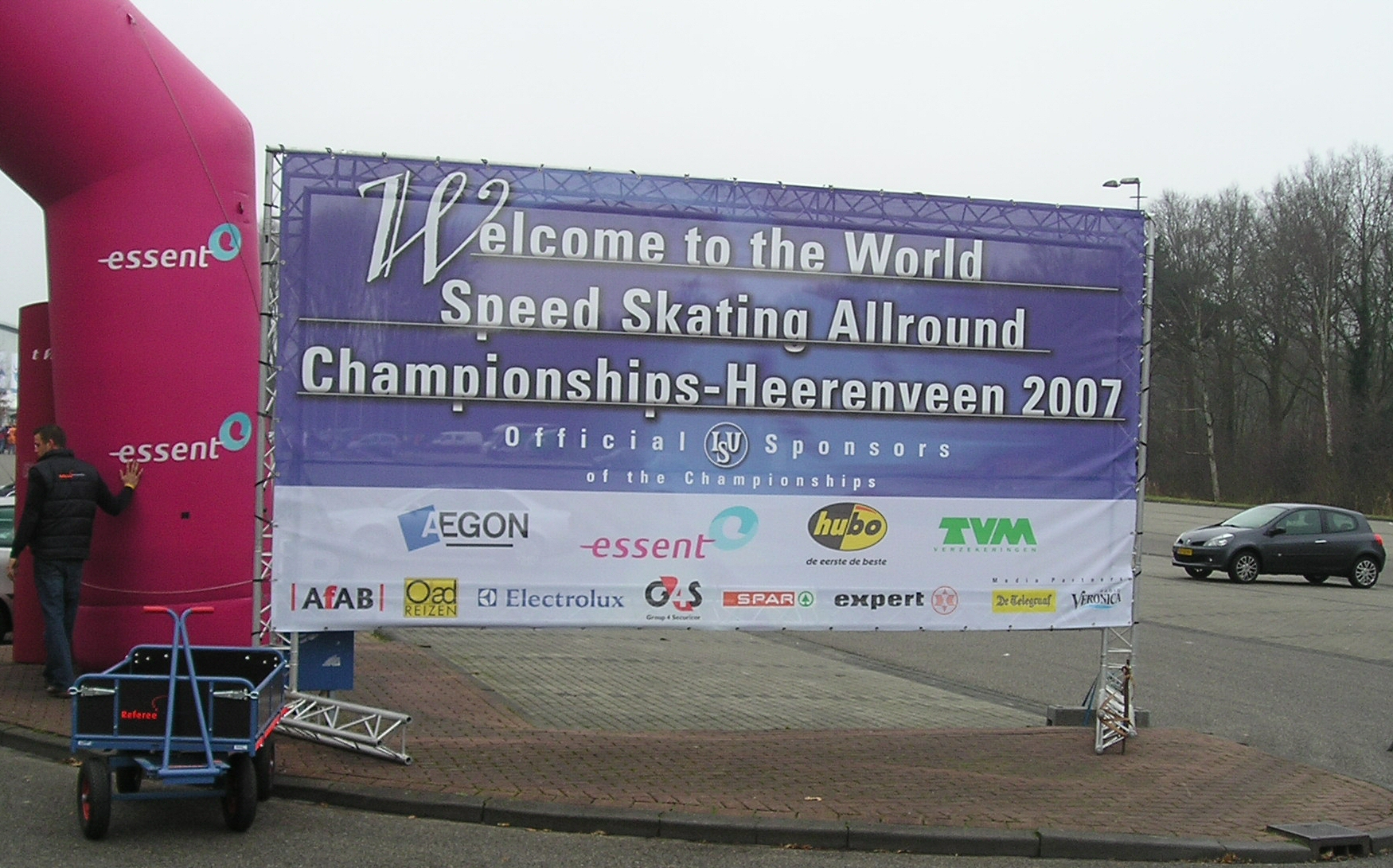 Billboard World Championship Allround Speedskating at Heerenveen (The Netherlands)